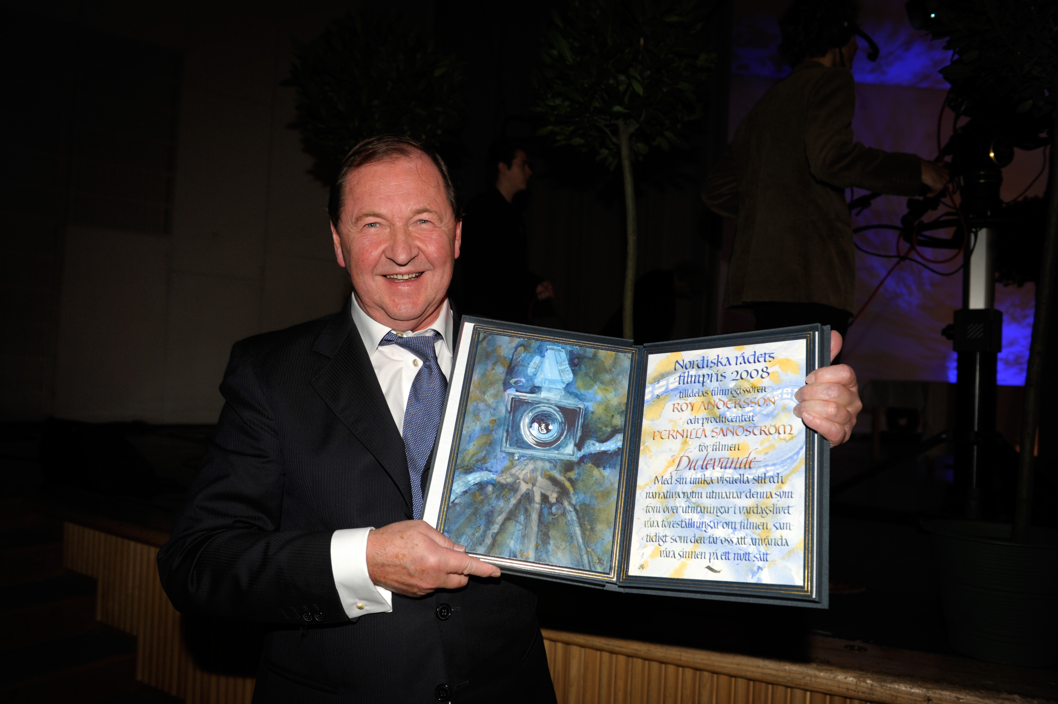 Roy Andersson vinnare av Nordiska rådets filmpris 2008. Prisutdelningen i Helsingfors 2008-10-28 Keywords: Film Prize